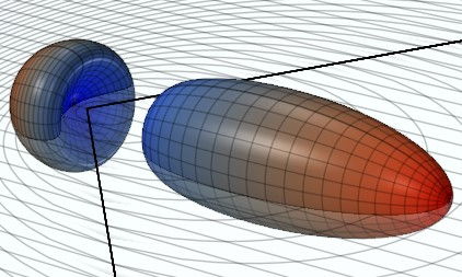 Tachyon visualization. Since a tachyon moves faster than the speed of light, we can not see it approaching. After a tachyon has passed nearby, we would be able to see two images of it, appearing and departing in opposite directions. The black line is the shock wave of Cherenkov radiation, shown only in one moment of time. Animation: 125px How this image was created